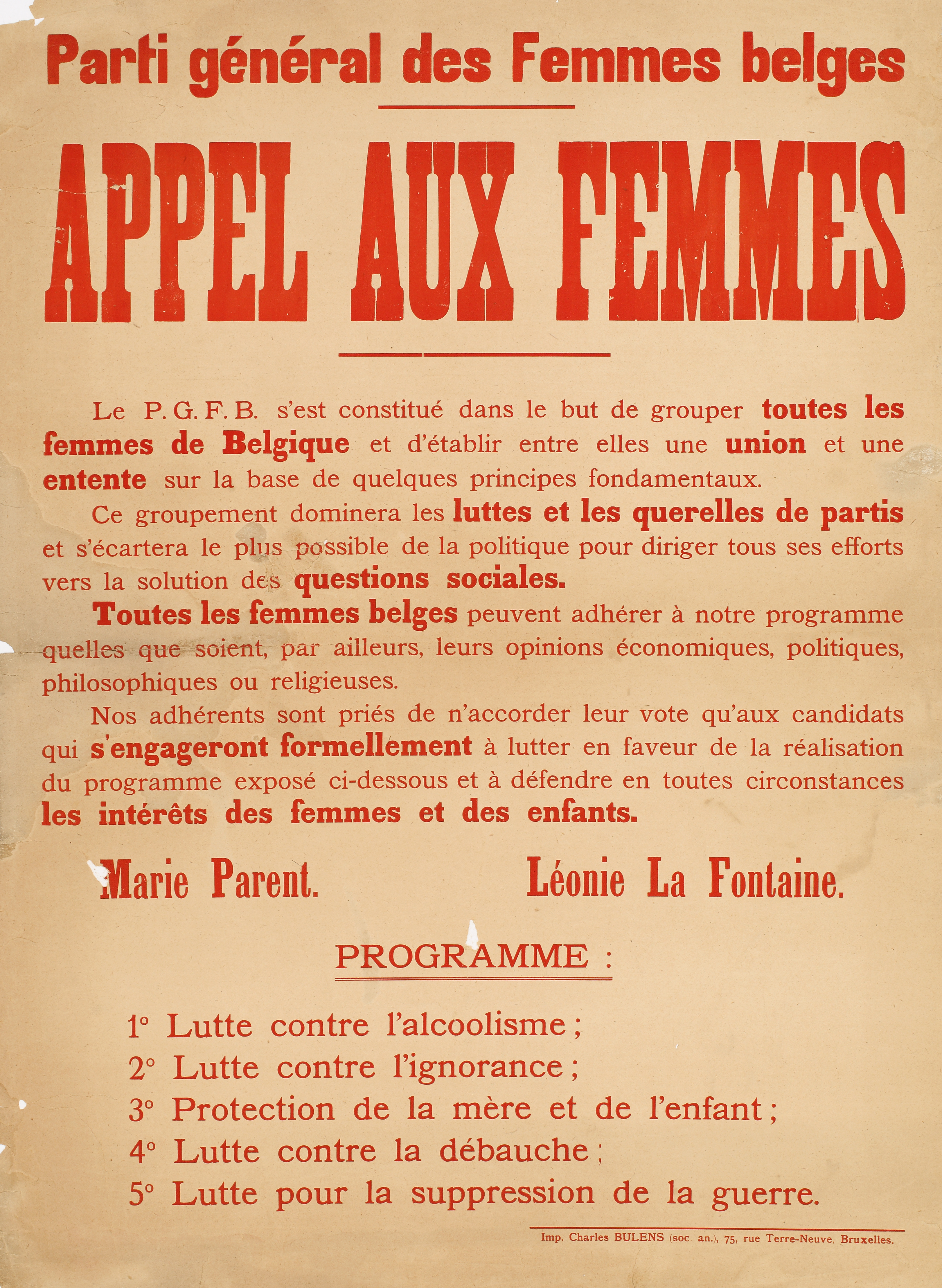 "Call to women", poster issued by the General Party of Belgian Women (created at the initiative of the Belgian League for Women's Rights), signed by Marie Parent and Léonie La Fontaine, 1921